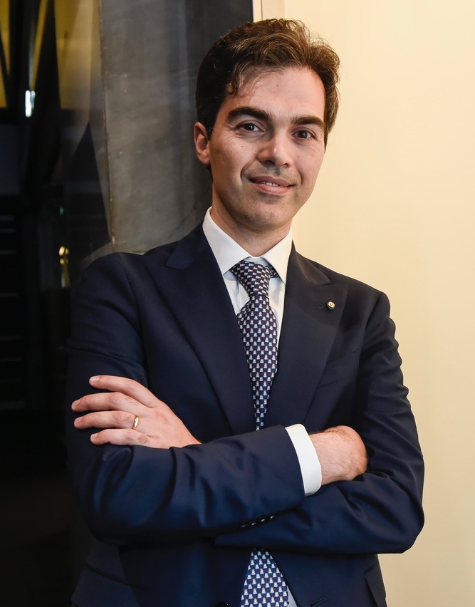 This is a photo of Angelo Bruscino